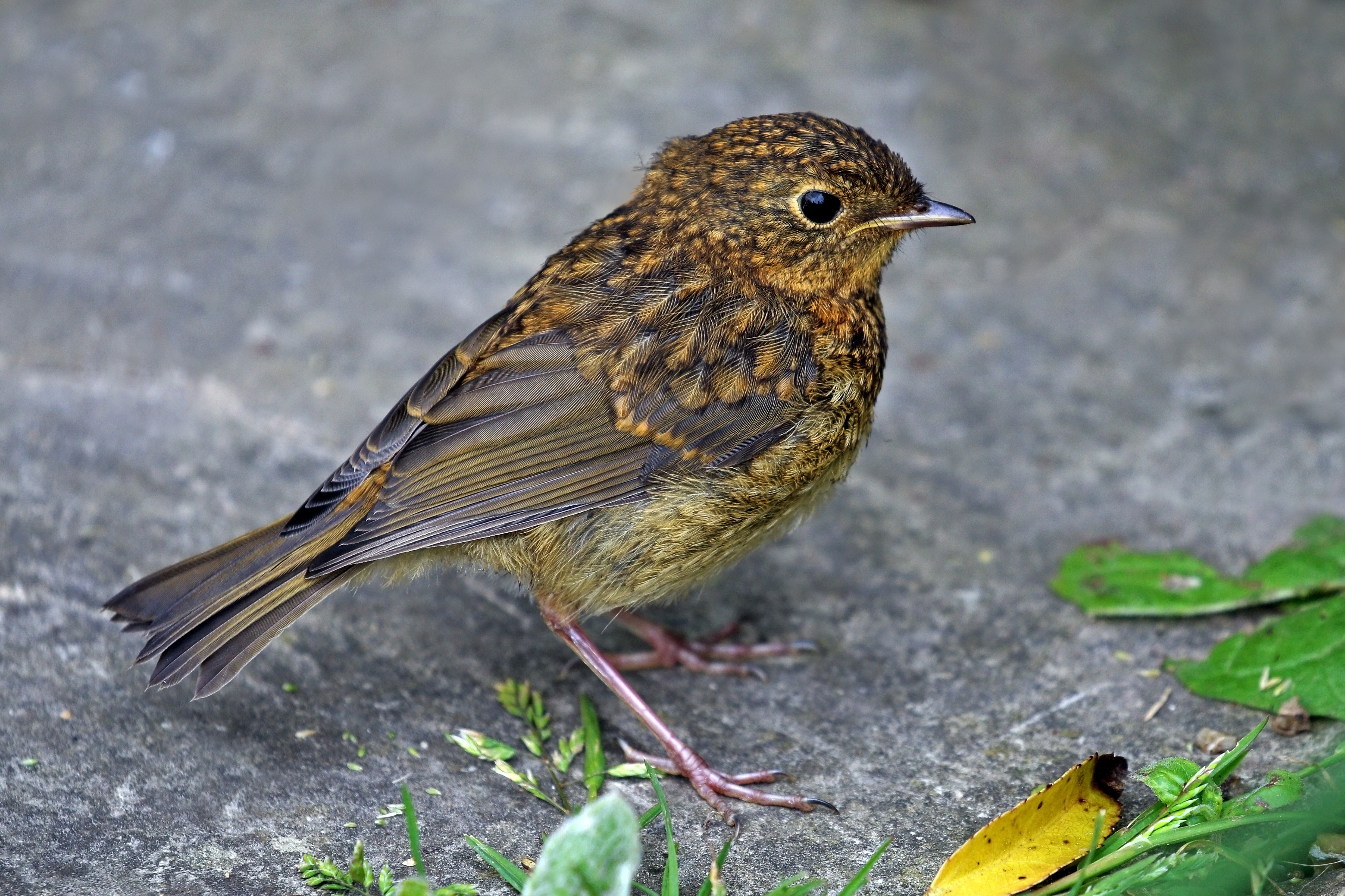 European robin (Erithacus rubecula) juvenile, Great Dixter, Sussex